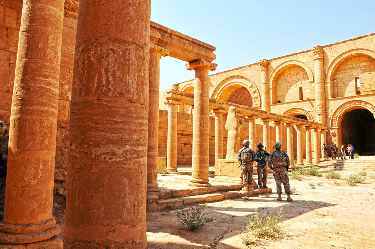 U.S. 3rd Infantry Division Soldiers tour Al Hatra, an ancient city located southwest of Mosul in the Al-Jazarah region of Iraq, Sept 18, 2010.